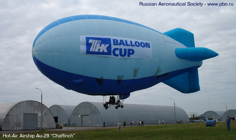 Hot-Air Airship AU-29 Chaffinch